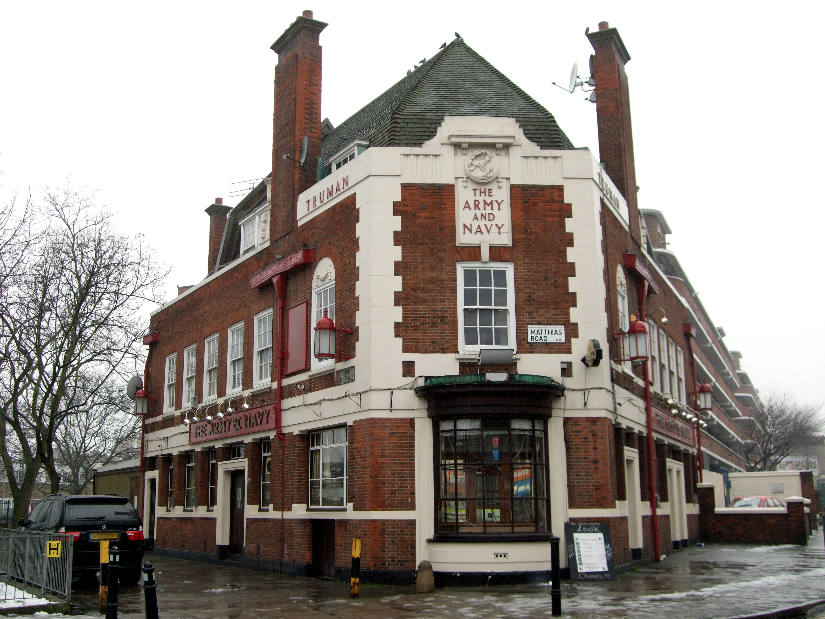 This Trumans pub is still going, towards the southern end of Stoke Newington. Address: 1-3 Matthias Road. Former Name(s): The Alma; The Army and Navy Tavern. Owner: Truman Hanbury Buxton (former). Links: London Pubology